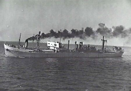 Photo of SS Empire Celia. Note the 4" gun